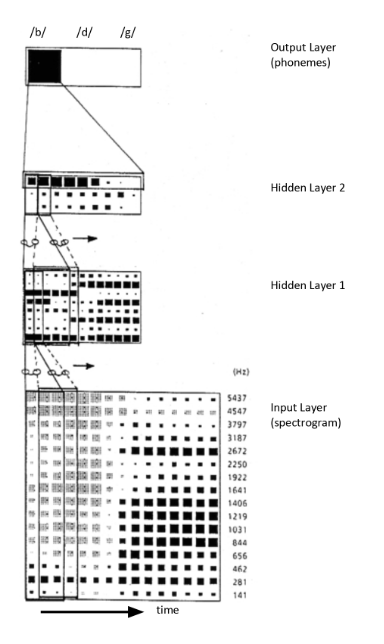 tdnn diagram from the original paper